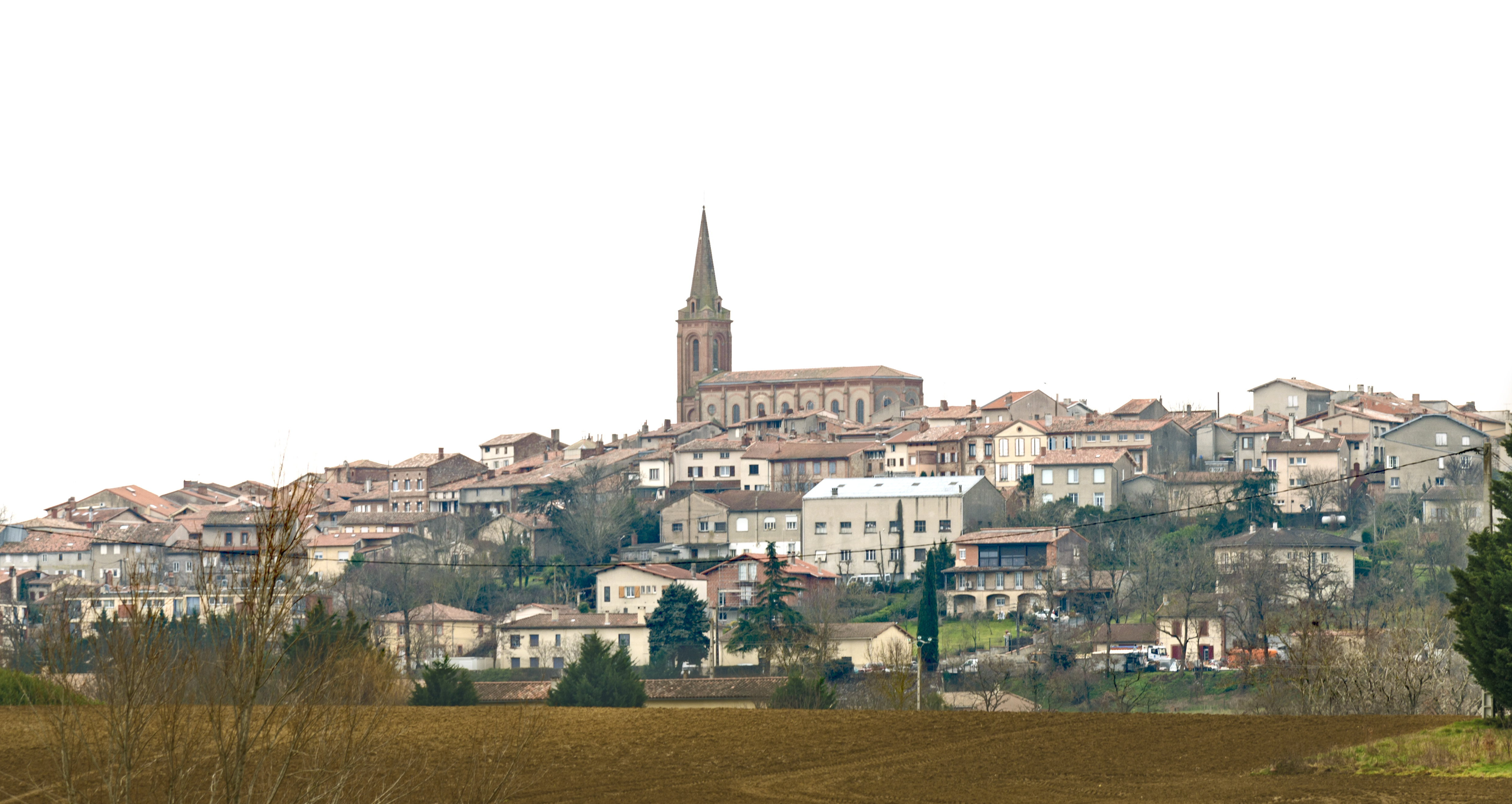 Caraman Haute-Garonne France - North exposure